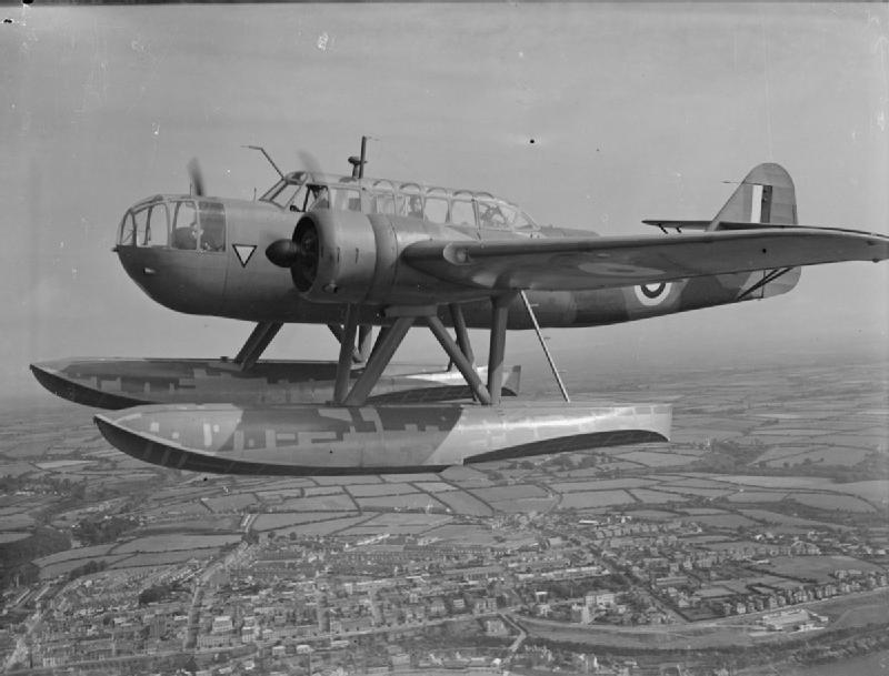 A Fokker T-VIIIW seaplane of RAF 320 Squadron begins a patrol after taking off from Pembroke Dock, Pembrokeshire.